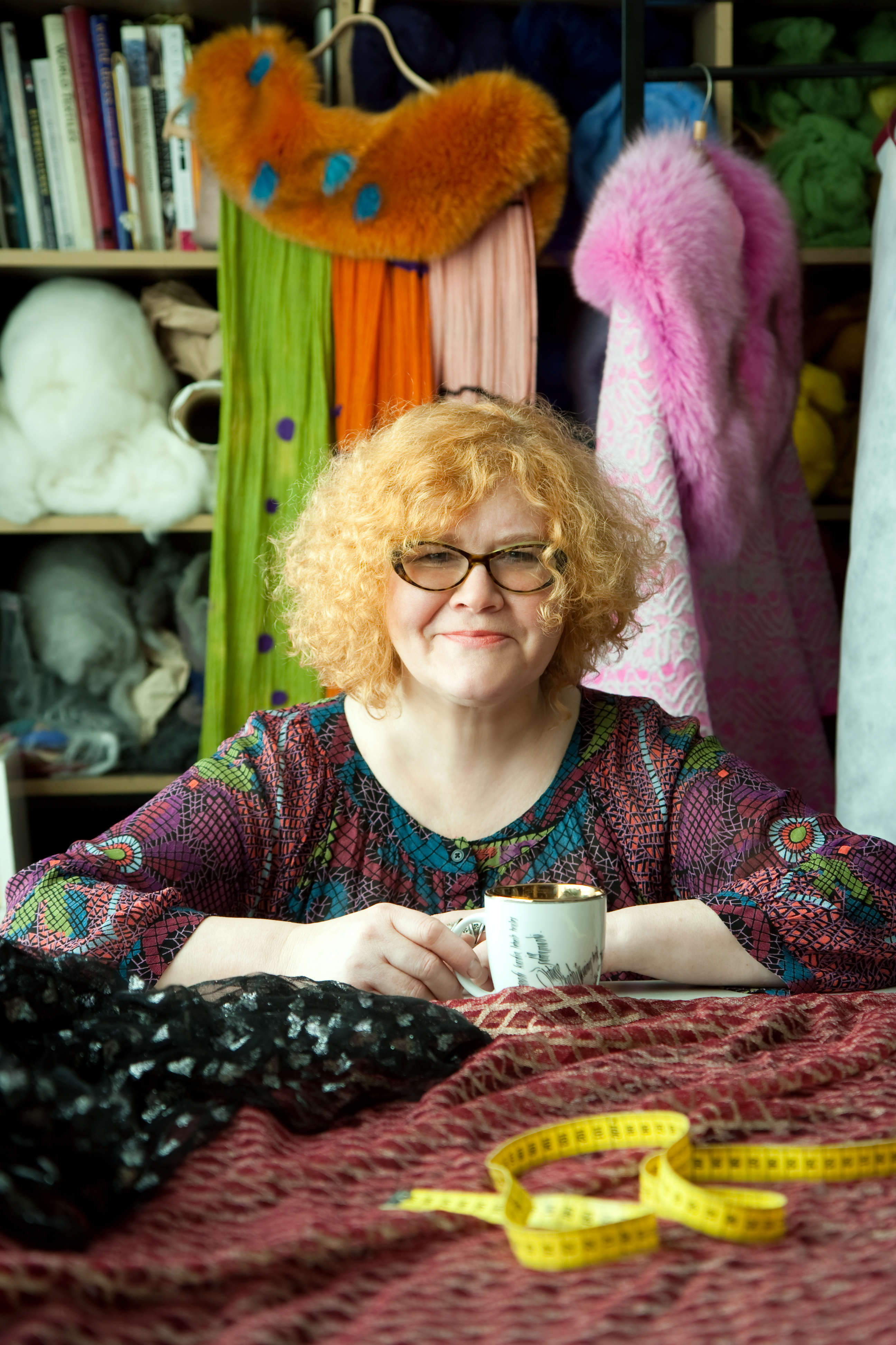 Fashion designer Küllike Tuvikene.